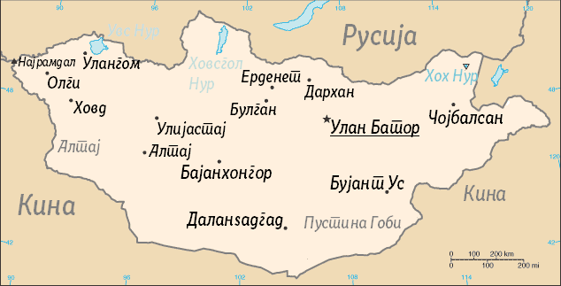 Map of Mongolia on Macedonian.